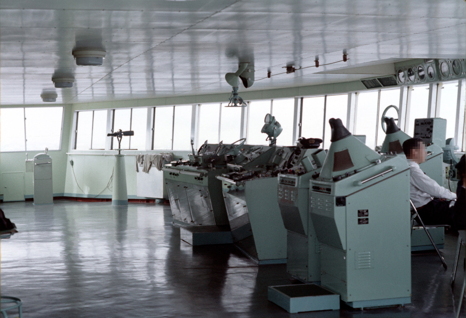 MS TAISETSU MARU2 wheel house A Stand on the port end is auxiliary propeller control console